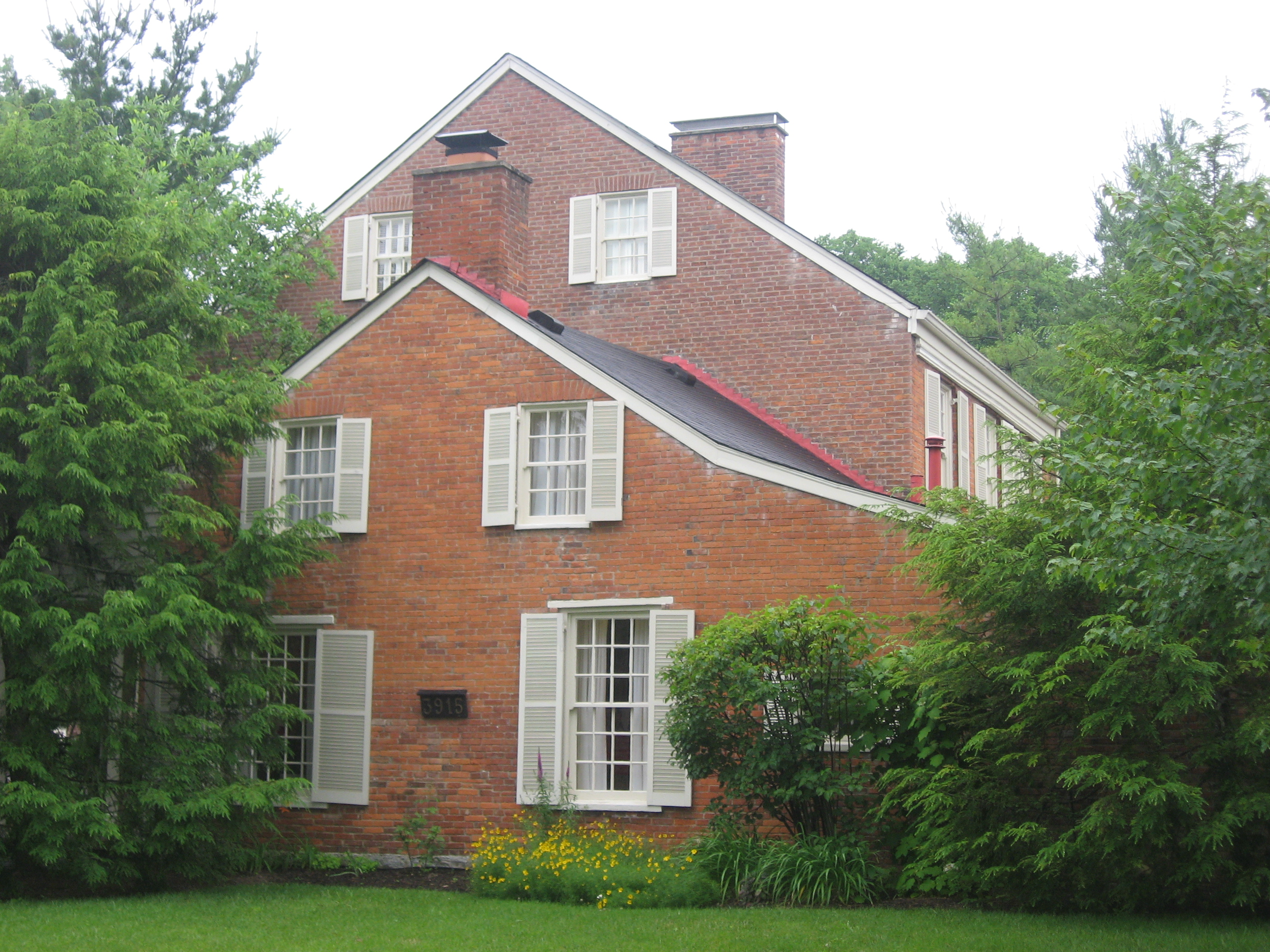 Eastern end of the Eliphalet Ferris House, located at 3915 Plainville Road in Mariemont, Ohio, United States. Built in 1802, it is listed on the National Register of Historic Places, and it is a part of the Mariemont Historic District, a National Historic Landmark.